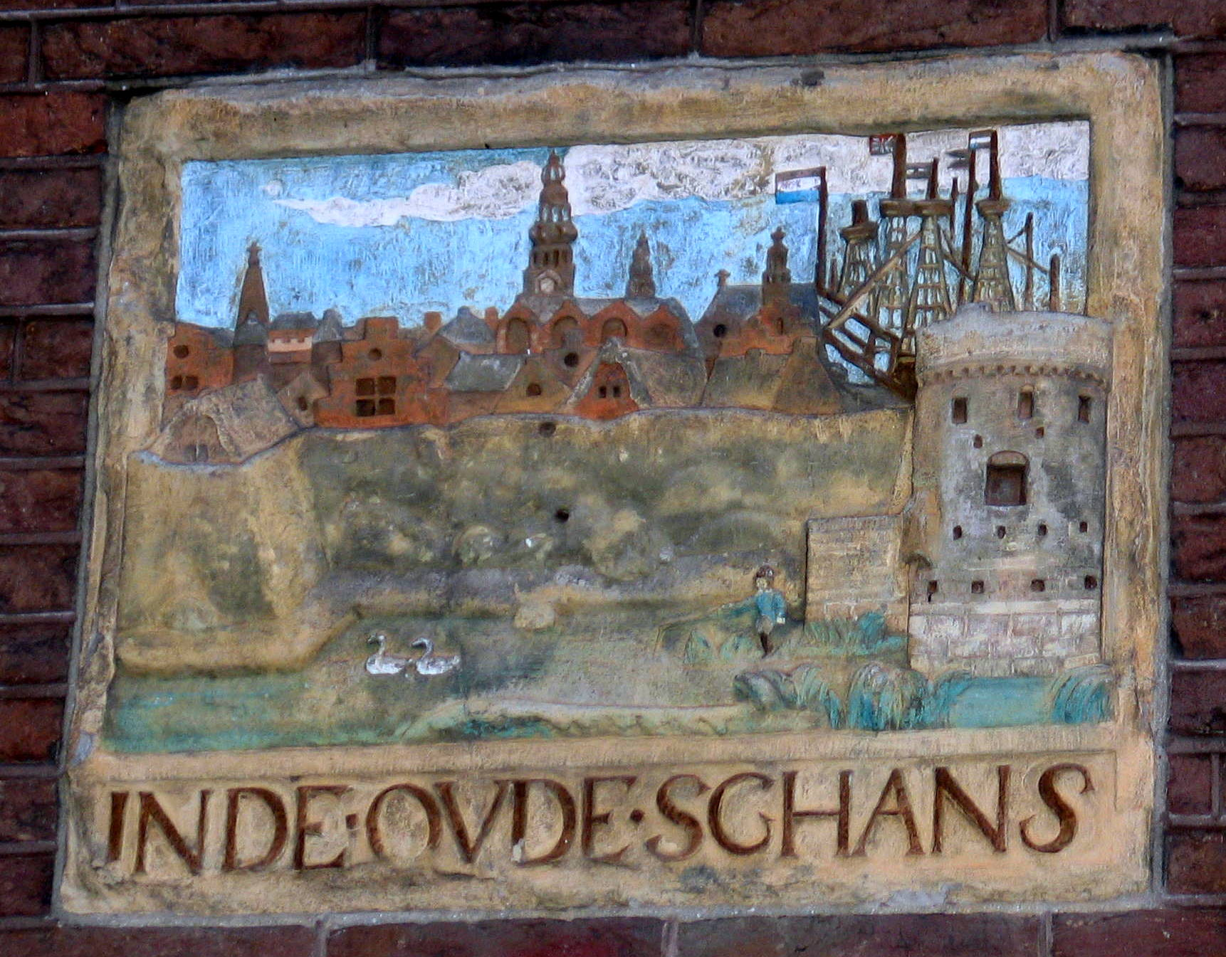 Gablestone in Amsterdam on Oudeschans